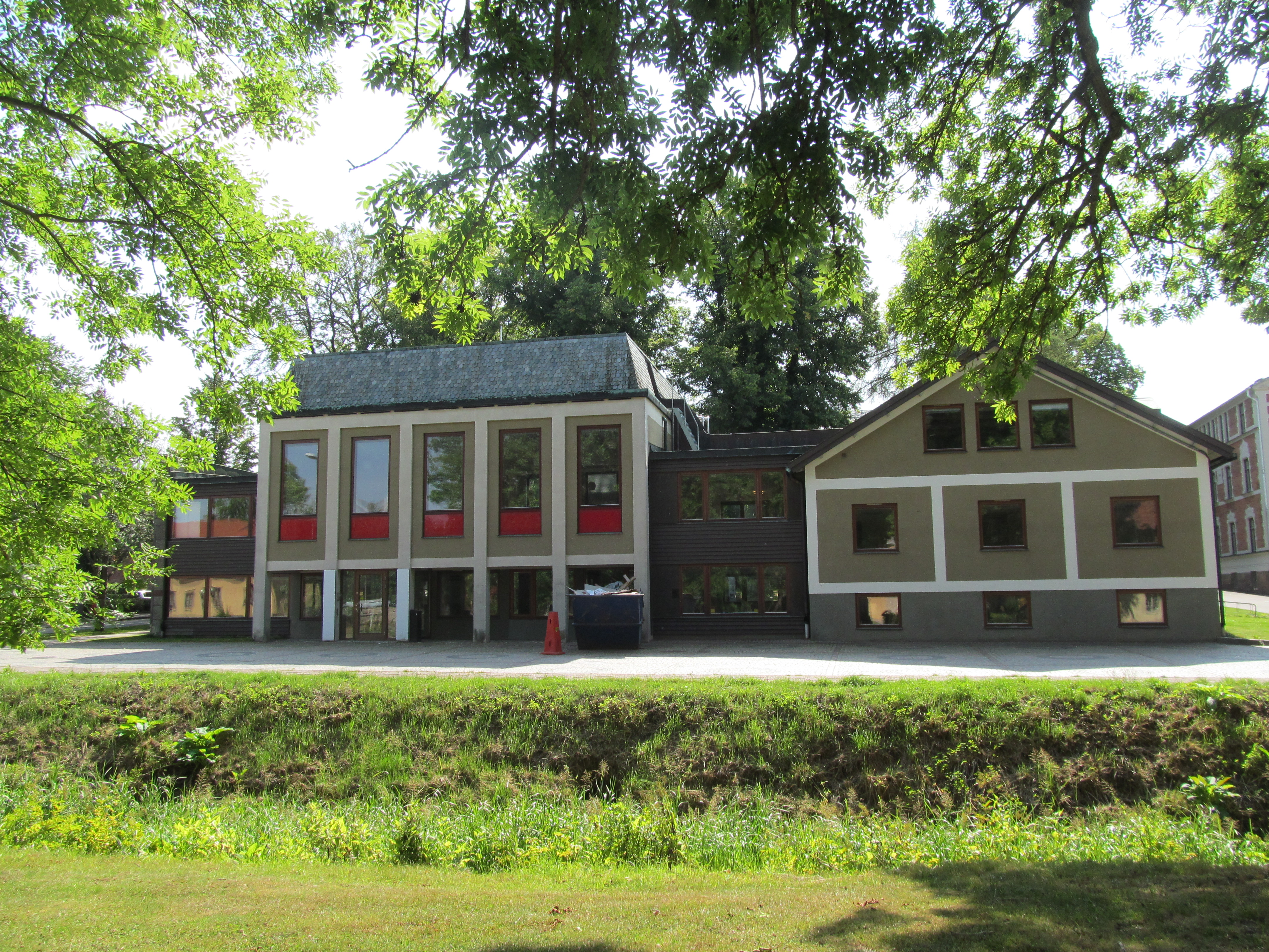 Building constructed as a courthouse in 1958-59 in Skara. Architects were Drott Gyllenberg and Thorsten Thorén. The court closed in 1970. Between 1975 and about 2000 the building was used by the Swedish University of Agricultural Sciences. Between 2004 and 2007, the headquarters of the Swedish Animal Welfare Agency was located in the building and after that, mostly empty. The building is currently being renovated to enable Skara skolscen (drama school) to move in. Photo from the north.